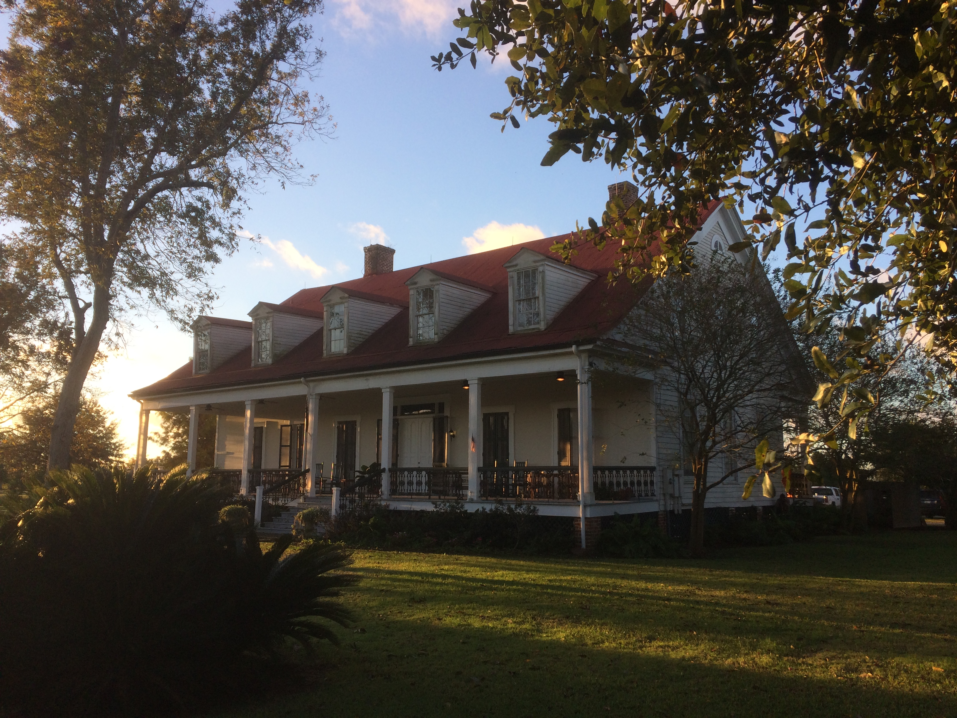 Woodland Plantation House, West Pointe a la Hache, Plaquemines Parish, Louisiana. Camera angle is similar to "Home on the Mississippi" but closer to the subject. Trees currently in the landscape prevented a wider view.